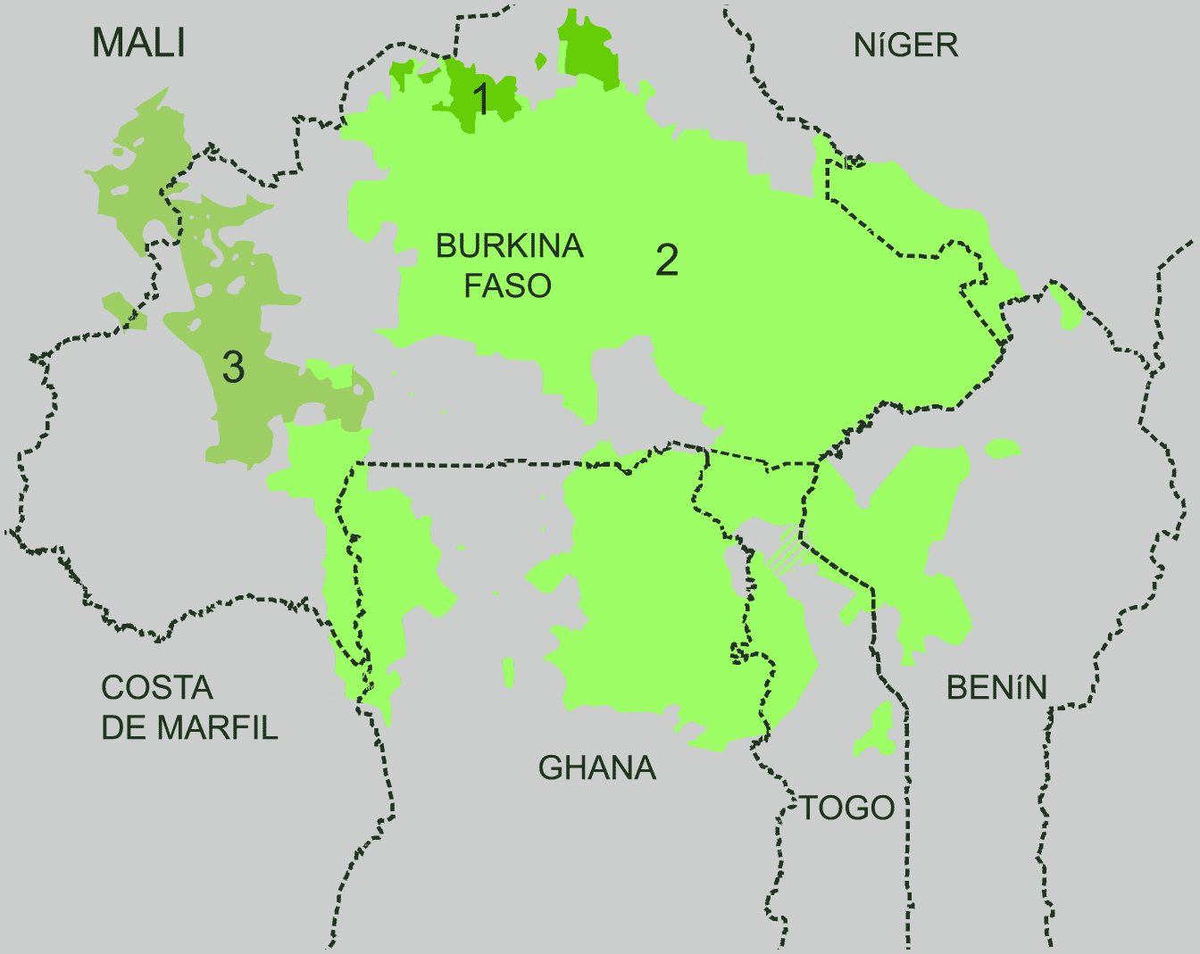 Northern central branches of Central Gur